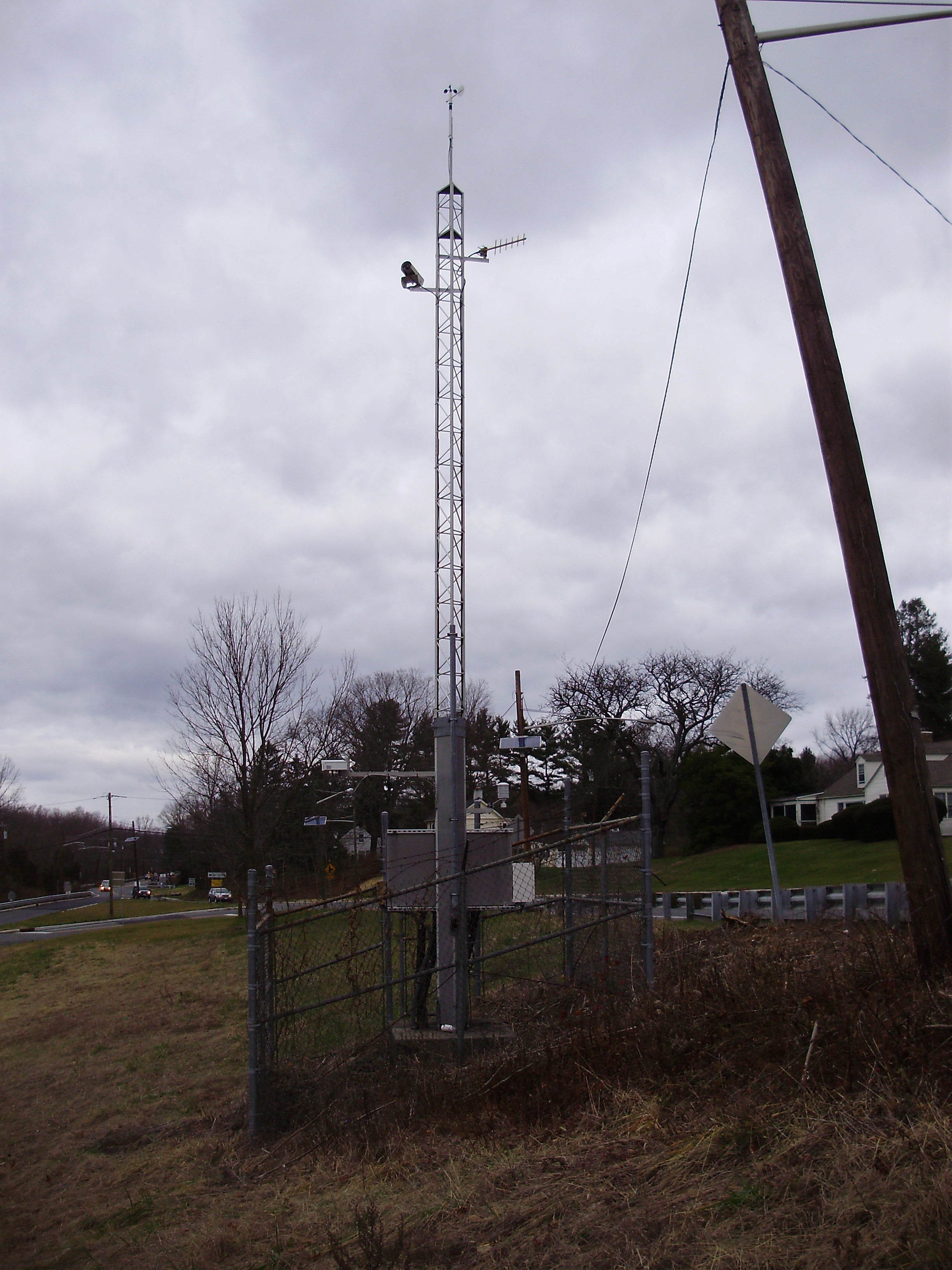 NJDOT Road Weather Information System (RWIS) on New Jersey Route 29 near Interstate 95 in Ewing, New Jersey